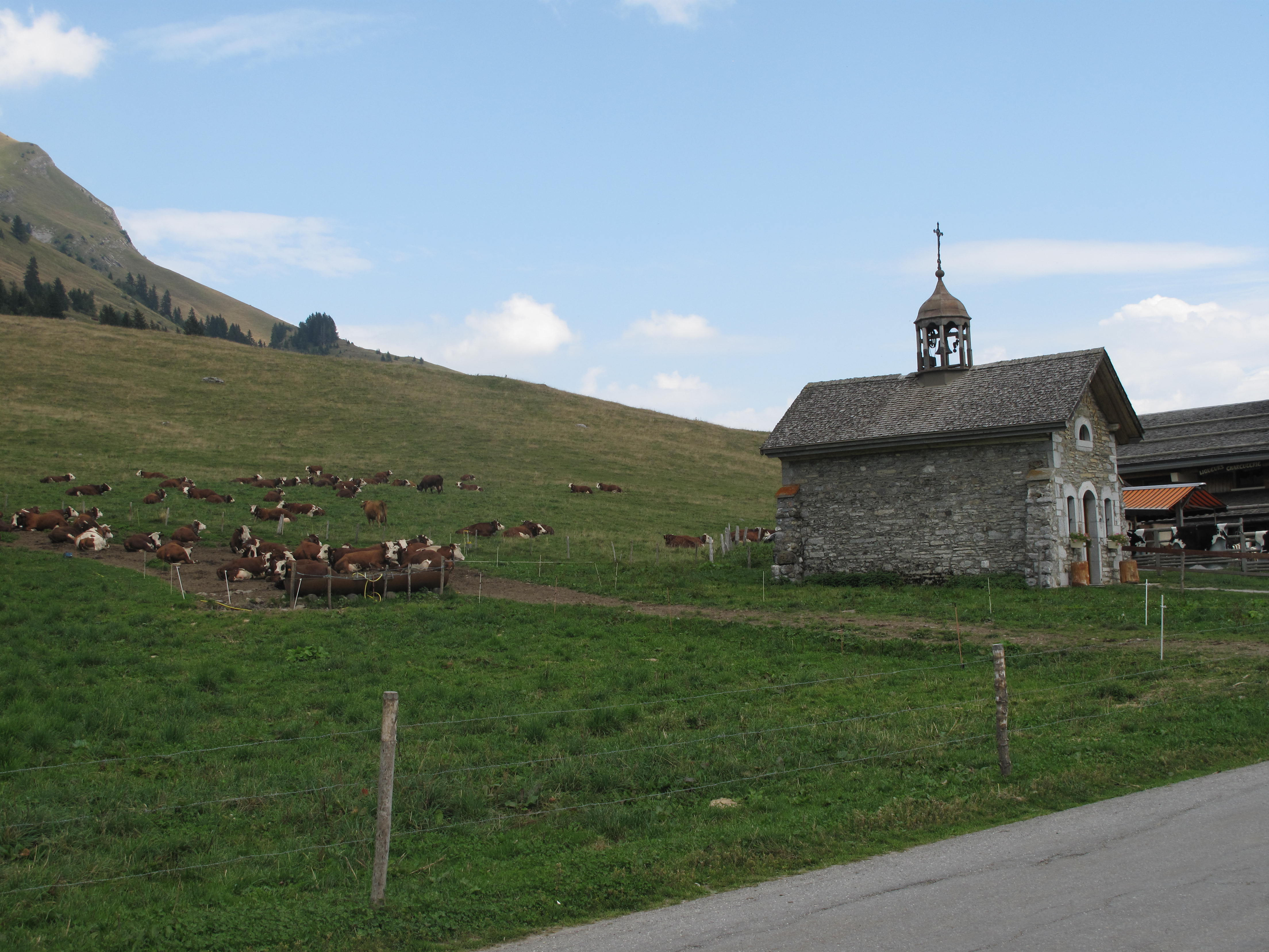 The chapel of les Aravis and a herd of Abondance cattle (Savoie, France).